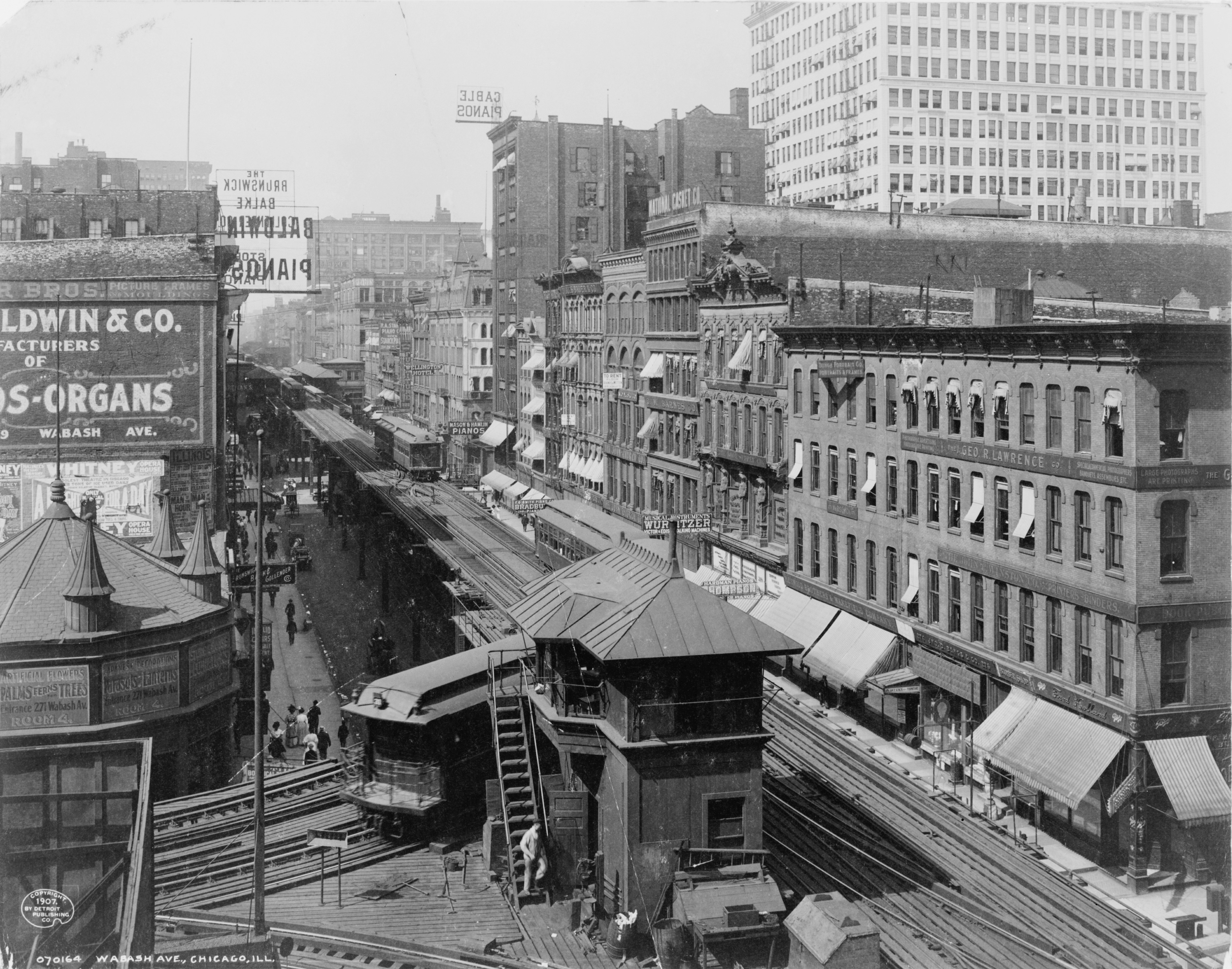 Elevated railroad on Wabash Avenue, Chicago, Illinois. Photo taken between 1900 and 1910.